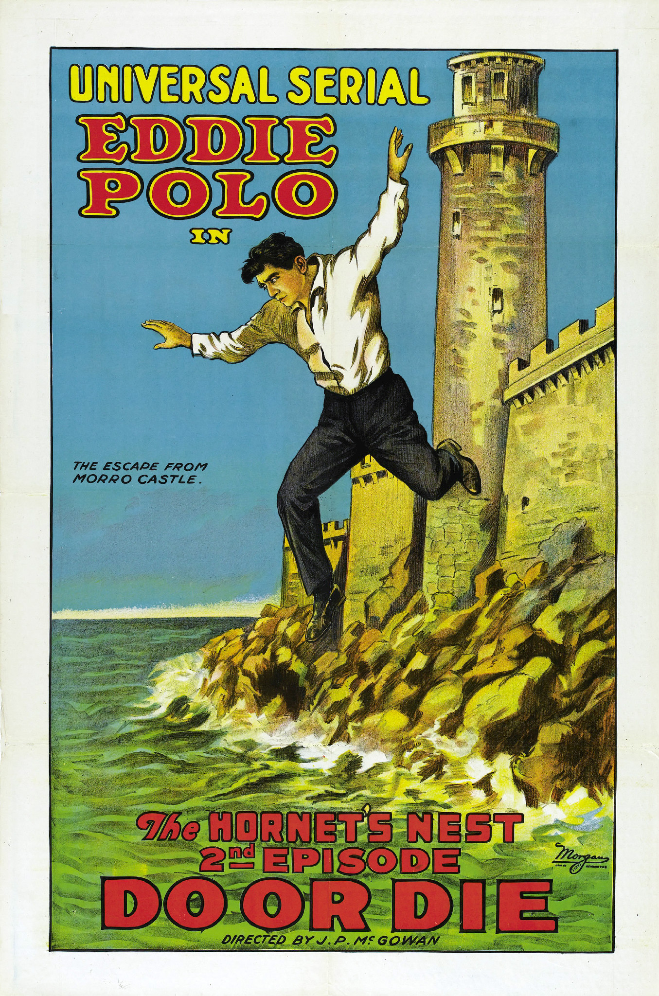 Poster for the American film serial Do Or Die (1921) episode 2 "The Hornet's Nest" with Eddie Polo.